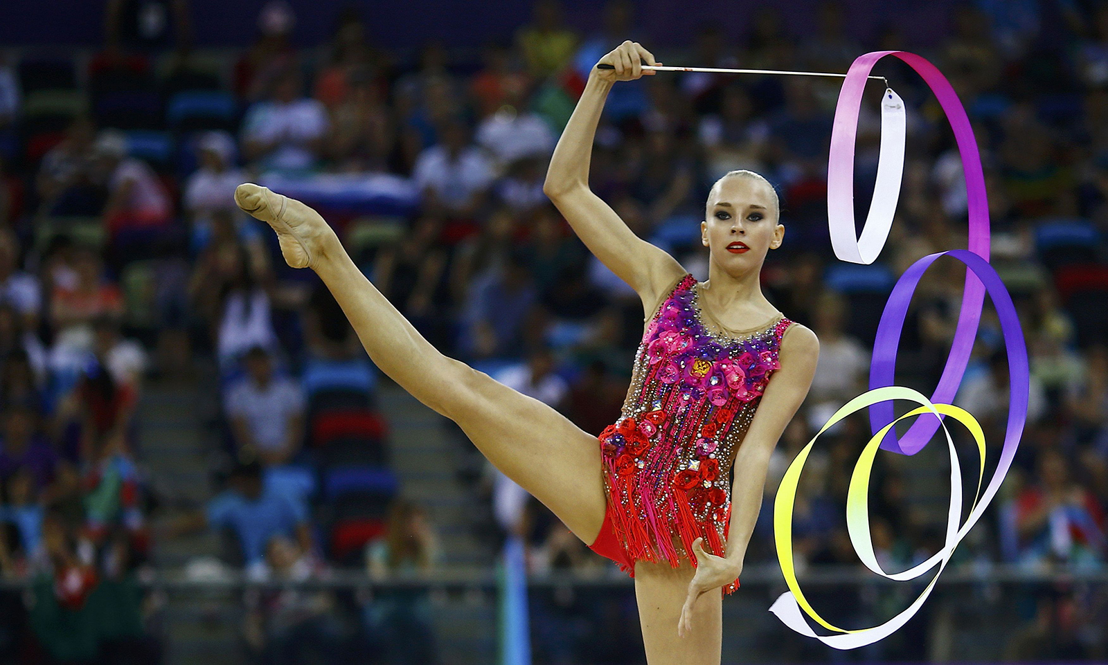 Yana Kudruavsteva of Russia competes during the rhythmic gymnastics all around final at the 1st European Games in Baku, Azerbaijan, June 19, 2015.